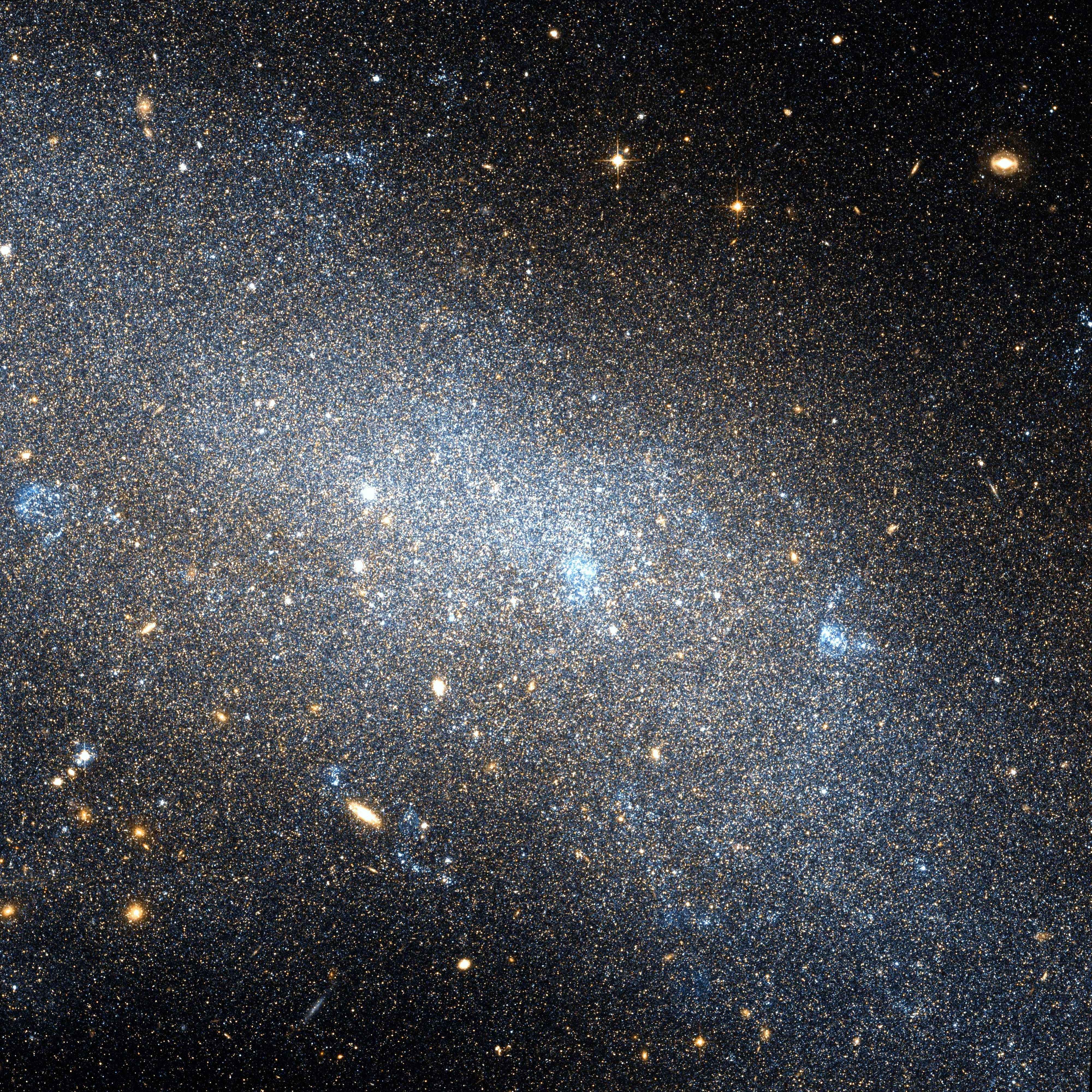 IC 2574 galaxy by Hubble space telescope